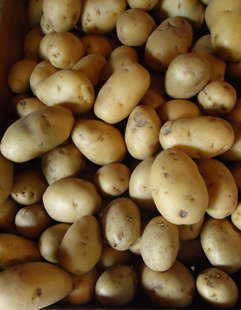 White potatoes on a farm in Gillette, New Jersey